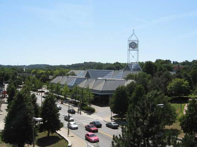 Forest Hills MBTA station in August 2007